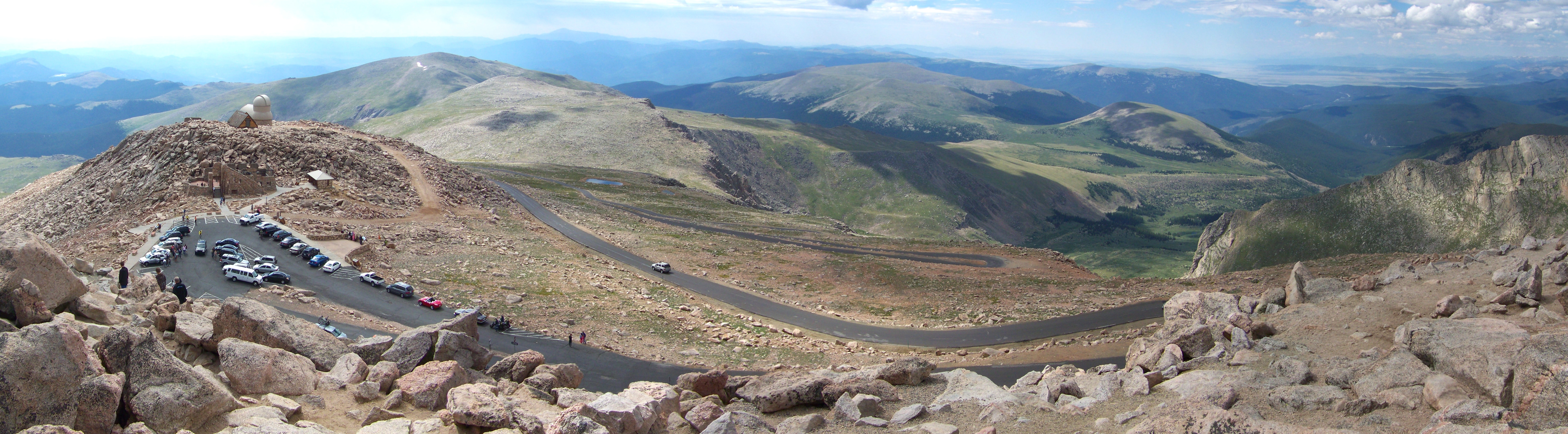 Mount Evans scenic highway as seen from summit. (Composite of several images).